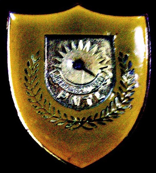 This is a photo of a PNTL badge I took on 2nd May 2007